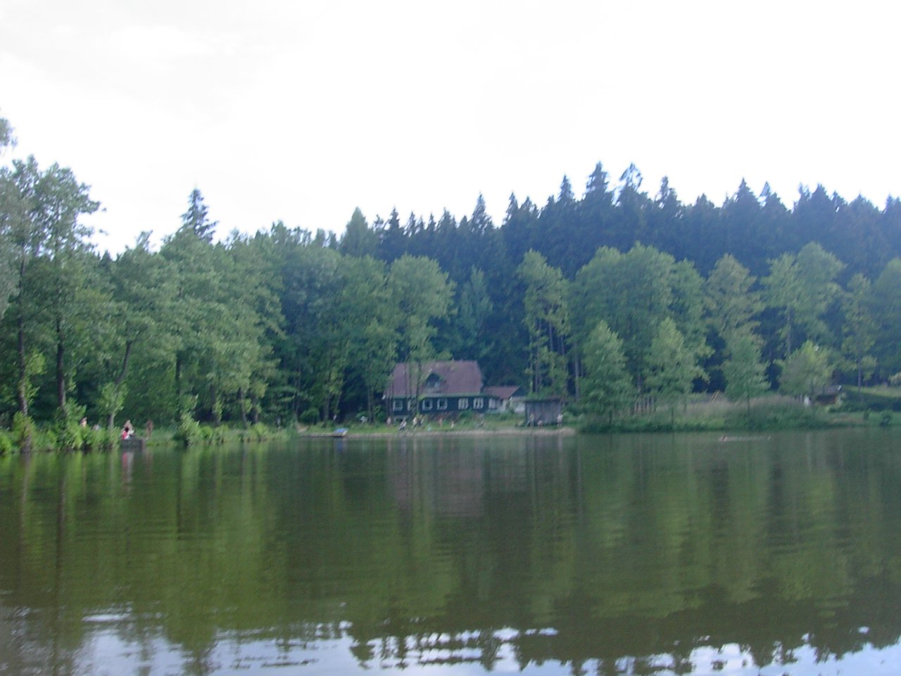 Mlýneček Pond near Pec, Domažlice District, Czech Republic.